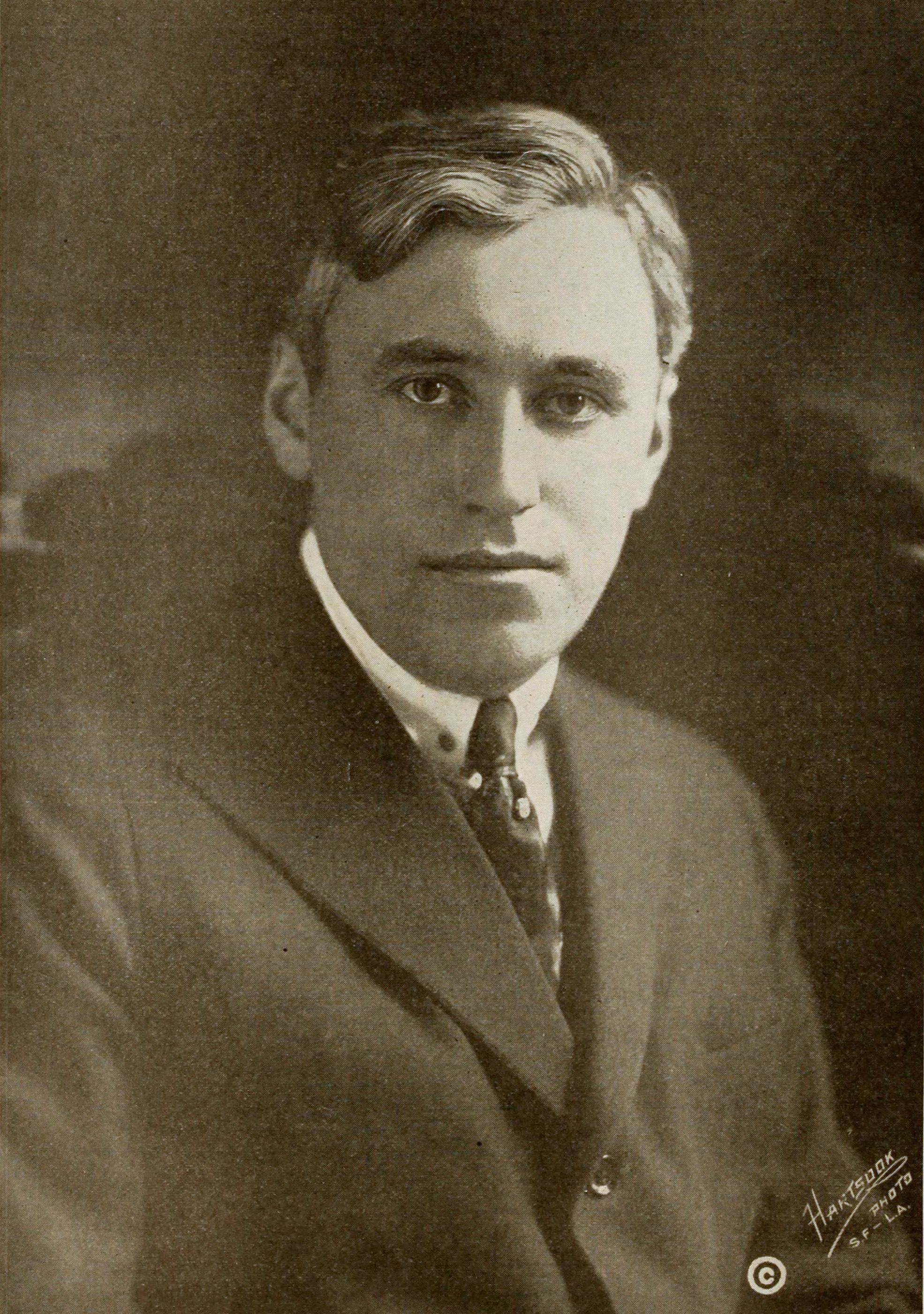 Advertisement in The Moving Picture World